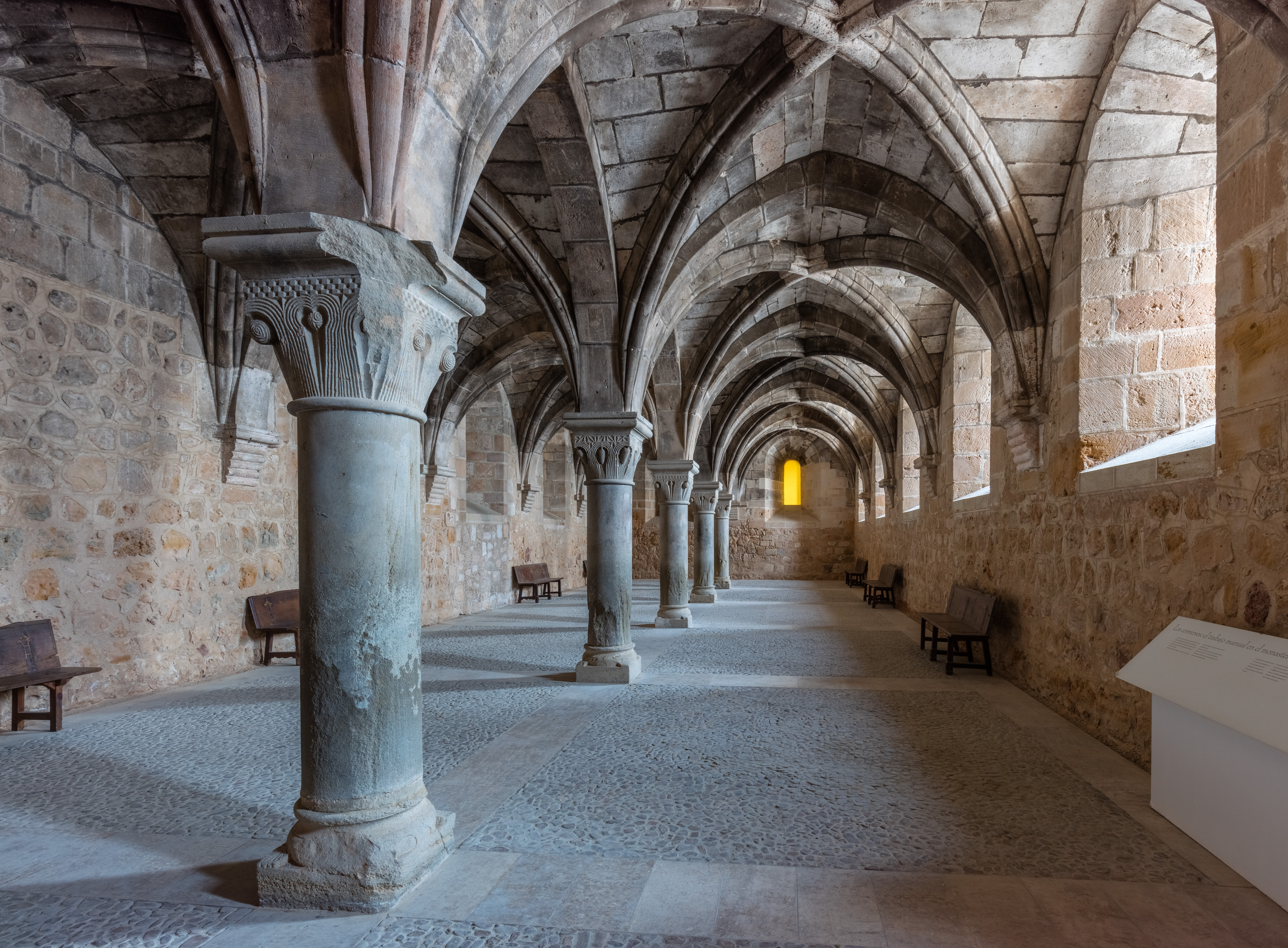 Refectory (dining room) for those lay brothers of the Cistercian Monastery of Santa María de Huerta. The monastery is located in the village of Santa María de Huerta, province of Soria, Castille and León, Spain. The first stone of the building was laid by the king Alfonso VII of Castile in 1179 and the building was expanded in the 16th century thanks to the help of the kings Charles I and Philip II.